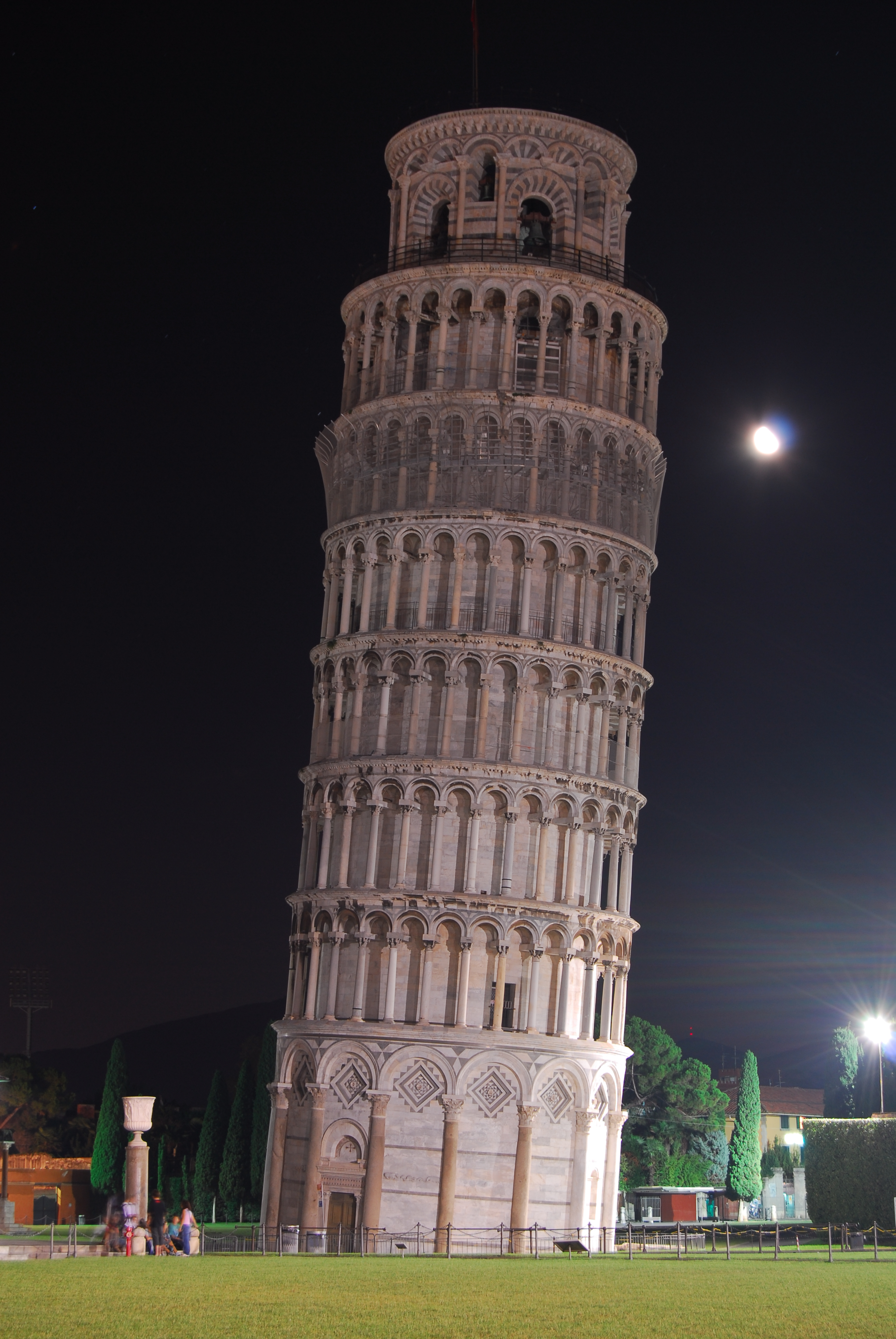 The Leaning Tower of Pisa, Italy (at night). The Camera was carefully leveled using a water-level to show the actual tilt of the building.